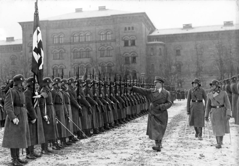 December 17, 1935 parade for Adolf Hitler at the Leibstandarte SS Adolf Hitler Barracks, Sepp Dietrich is to the right of Hitler.